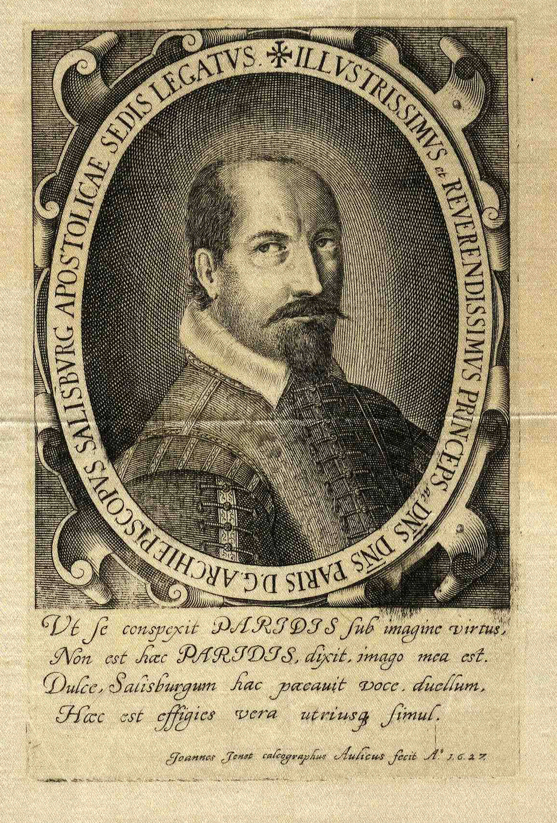 Paris Lodron (Illustrissimus ... Princeps ... Paris ... archiepiscopus Salisburgensis; Kupferstich